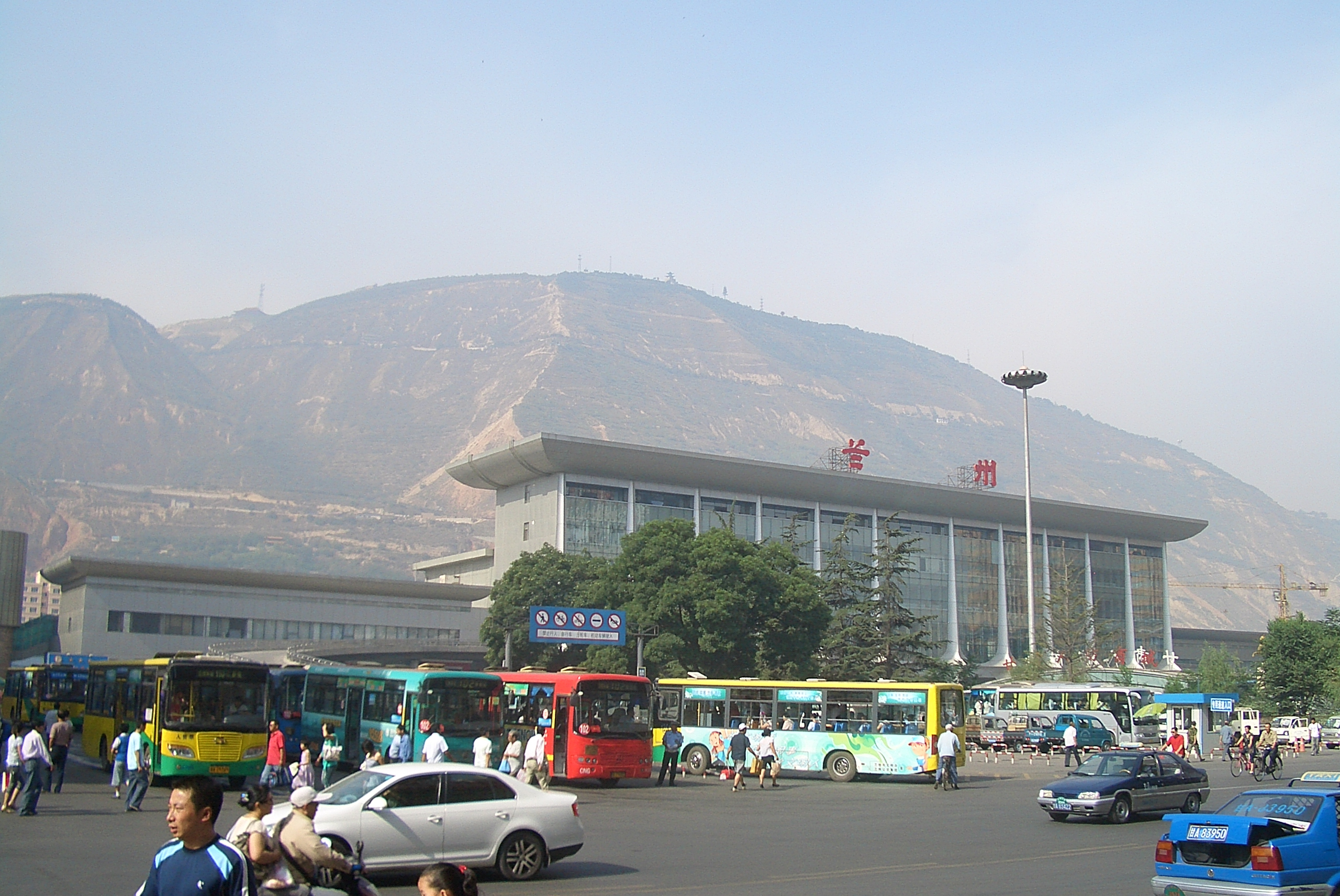 Moana, SA seen from the coastal recreational south of town